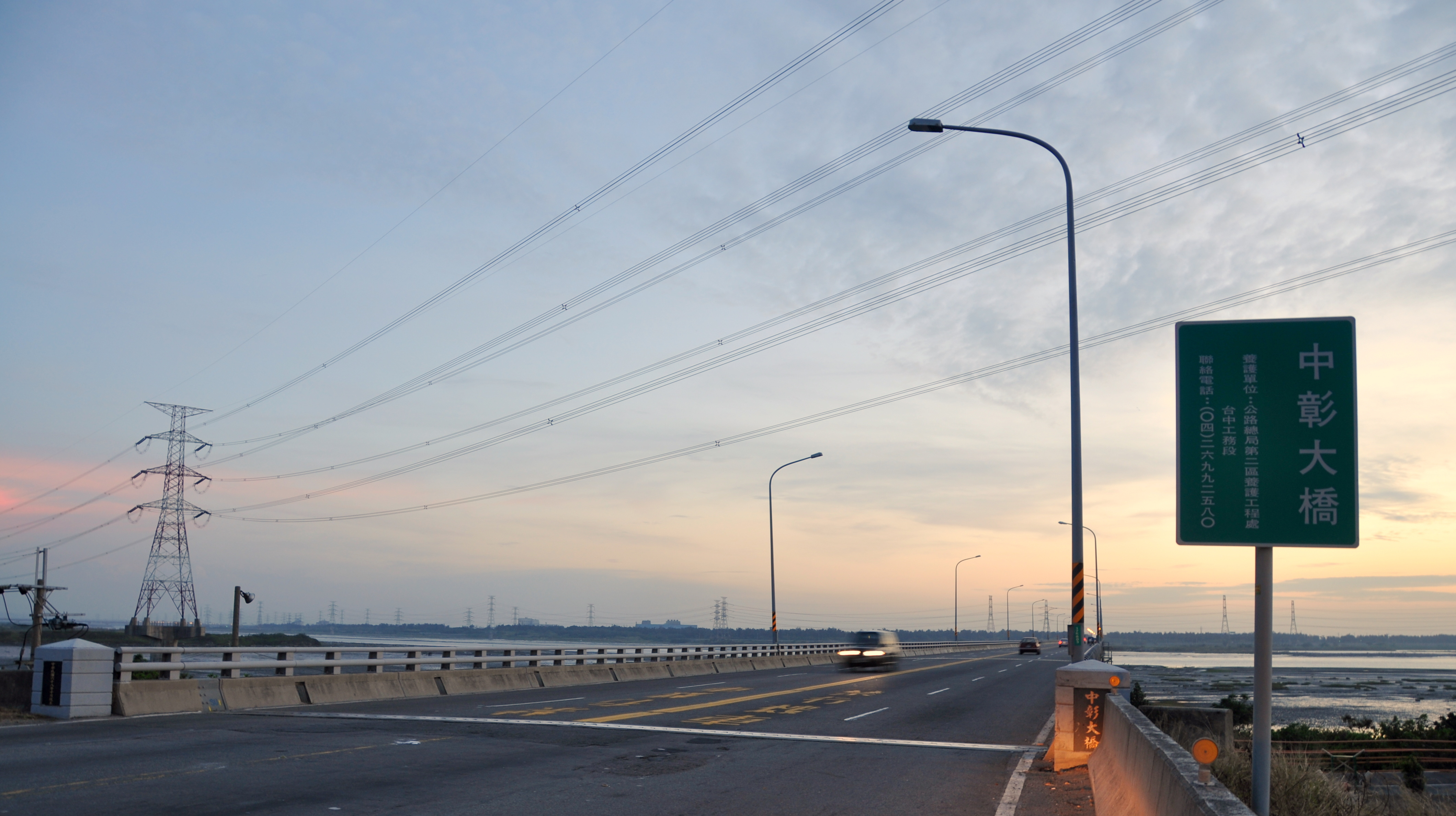 Contacts Taichung County and Zhanghua County Chungzhang Bridge Longjing Township end.